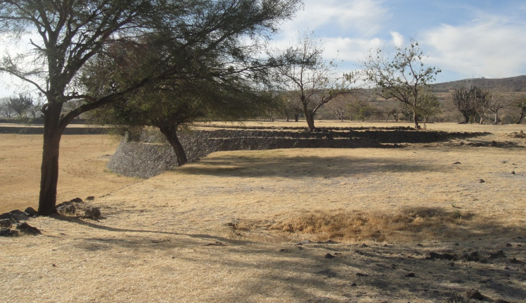 Peralta Main Structure Round basement